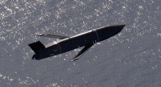 A U.S. Navy Long Range Anti-Ship Missile (LRASM) in flight during a test event Dec. 8 off the Coast of California.